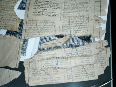 The archives of Serbia were in comparison with other Balkan states in a terrible state. They were not microfilmed and there was a lot of work to be done before people can have the same ease to access their ancestral data from their own chair over the internet as in the rest of Europe. One of the tasks of the SGS is to inform people about the current state of the archives, how to do research and to inform the people that we need to hasten our efforts to microfilm our cultural heritage before it is lost.